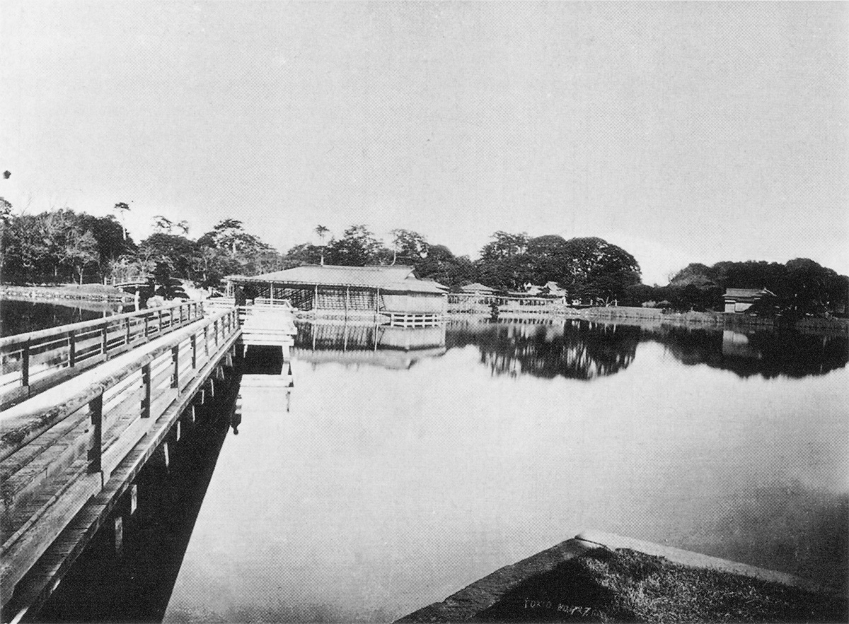 Hama-Rikyu garden (Tokyo), view of Bridge and Trellis